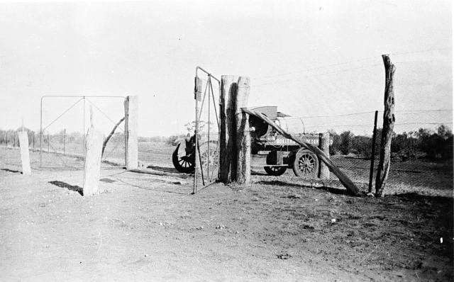 A truck at the Hungerford gate in the rabbit-proof fence between New South Wales and Queensland - Hungerford